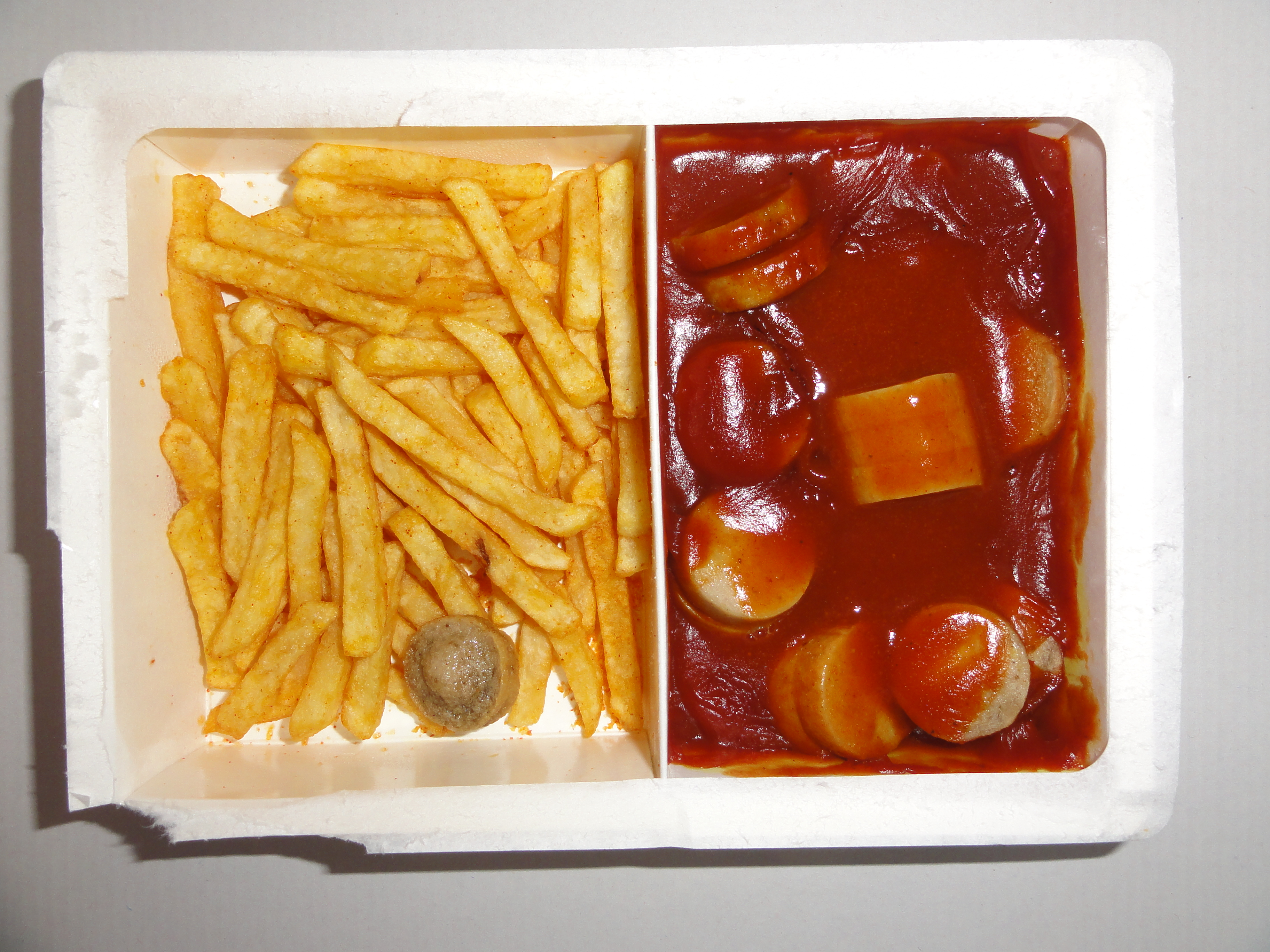 Ready to eat (defrosted) microwave food (TV dinner): Currywurst with French fries